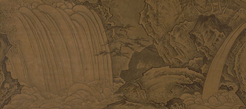 Copy by Kano Tsunenobu of Sesshu painting lost in the Great Kanto Earthquake